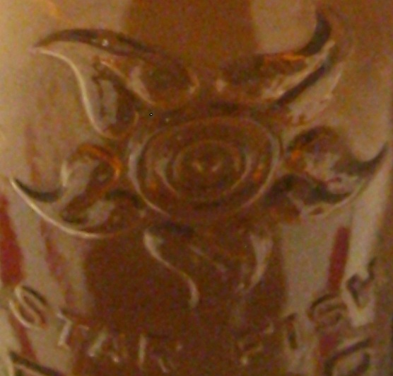 A Charles Wells beer bottle from the late 19th or early twentieth century, on display in The Higgins museum and gallery, Bedford.